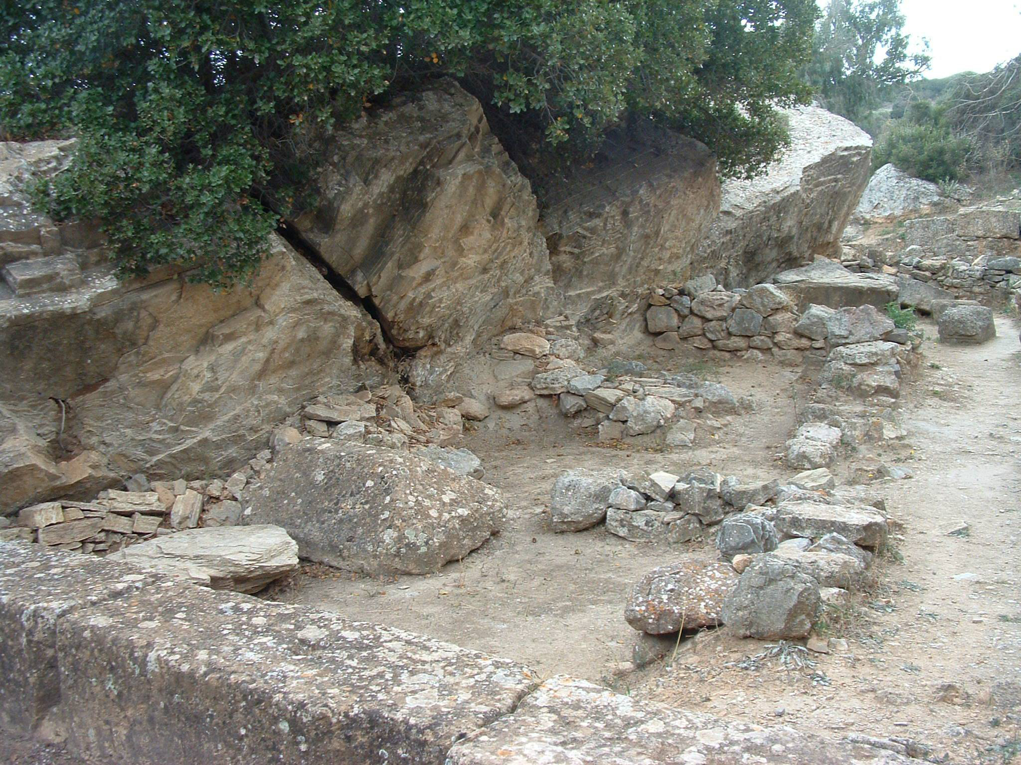 Photo of Brauron